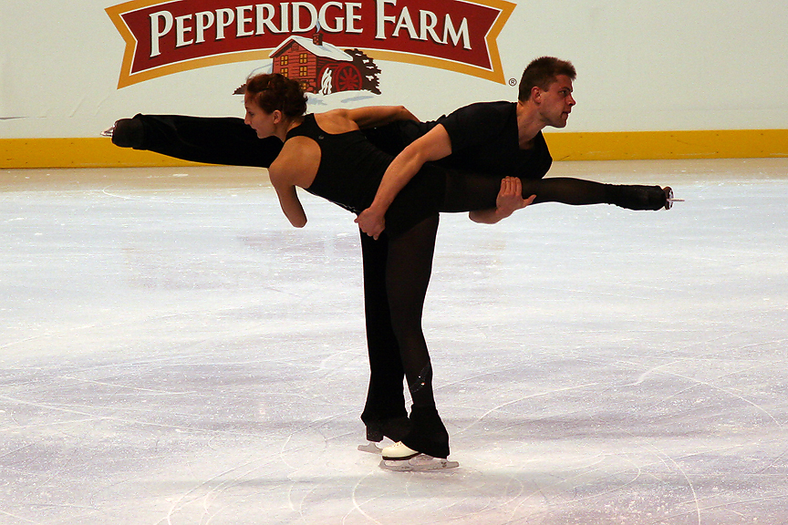 Dominika Piątkowska and Dmitri Khromin perform a pair spin at the 2006 Skate America.